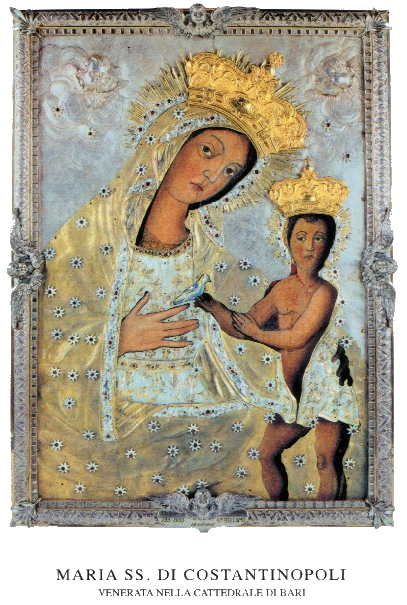 Icon with Riza: Maria of Constantinople in the crypt of Cathedral San Sabino, Bari